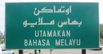 Photograph of sign promoting Standard Malay.